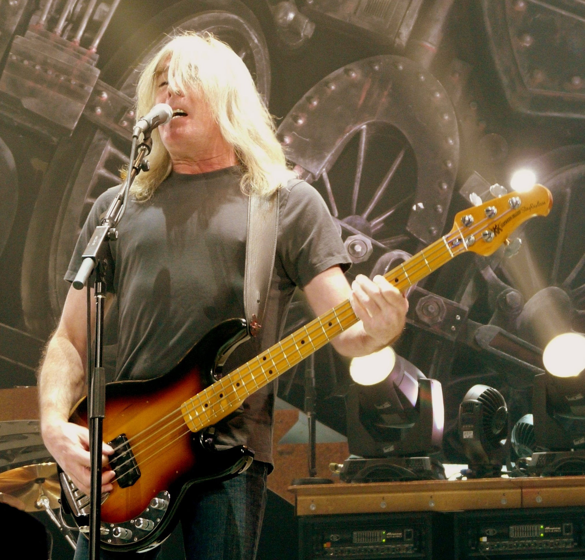 CLIFF WILLIAMS Cliff Williams live with AC/DC on November 23, 2008 in St. Paul, MN PHOTO BY MATT BECKER